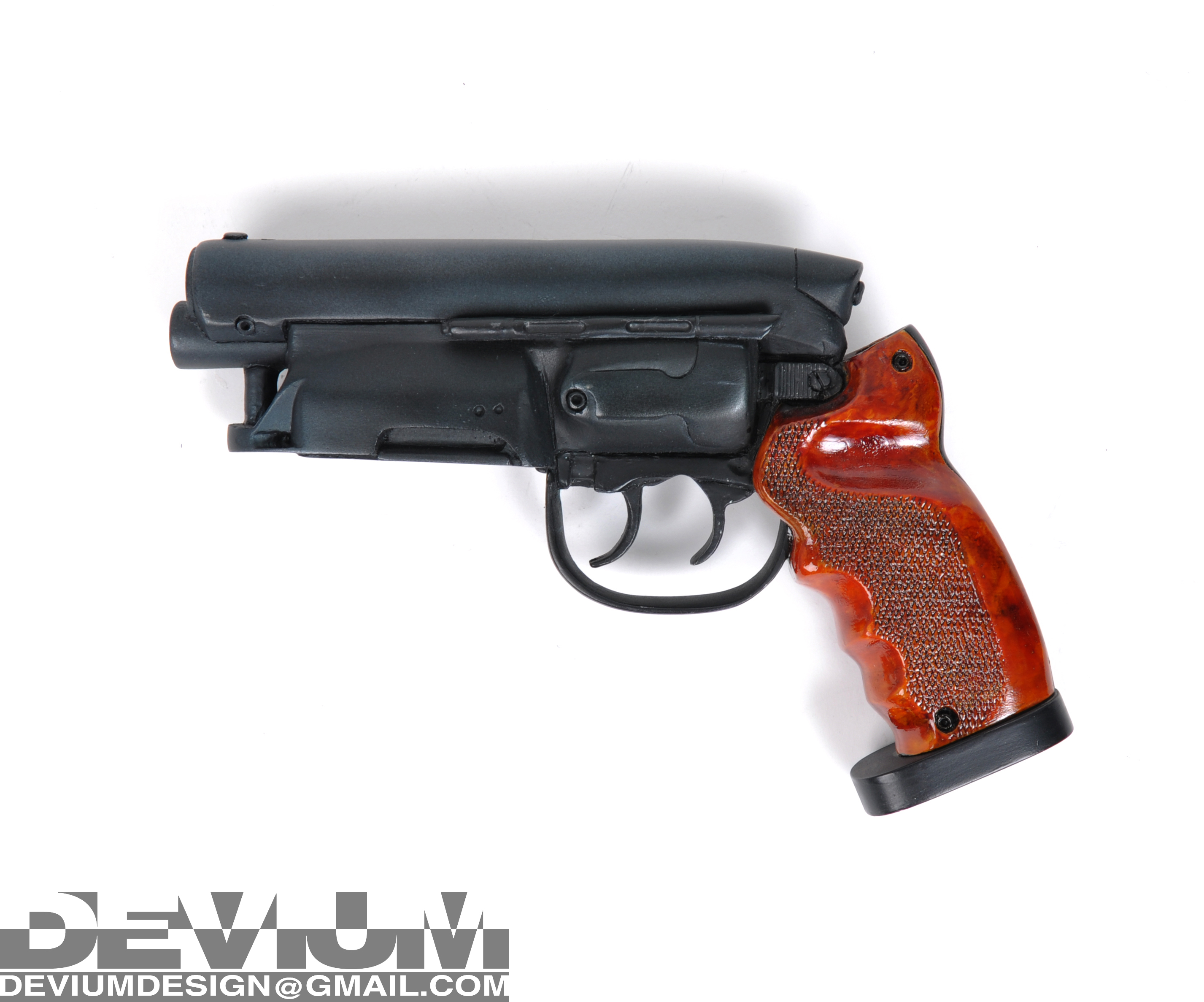 Actual casting from the stunt prop gun.